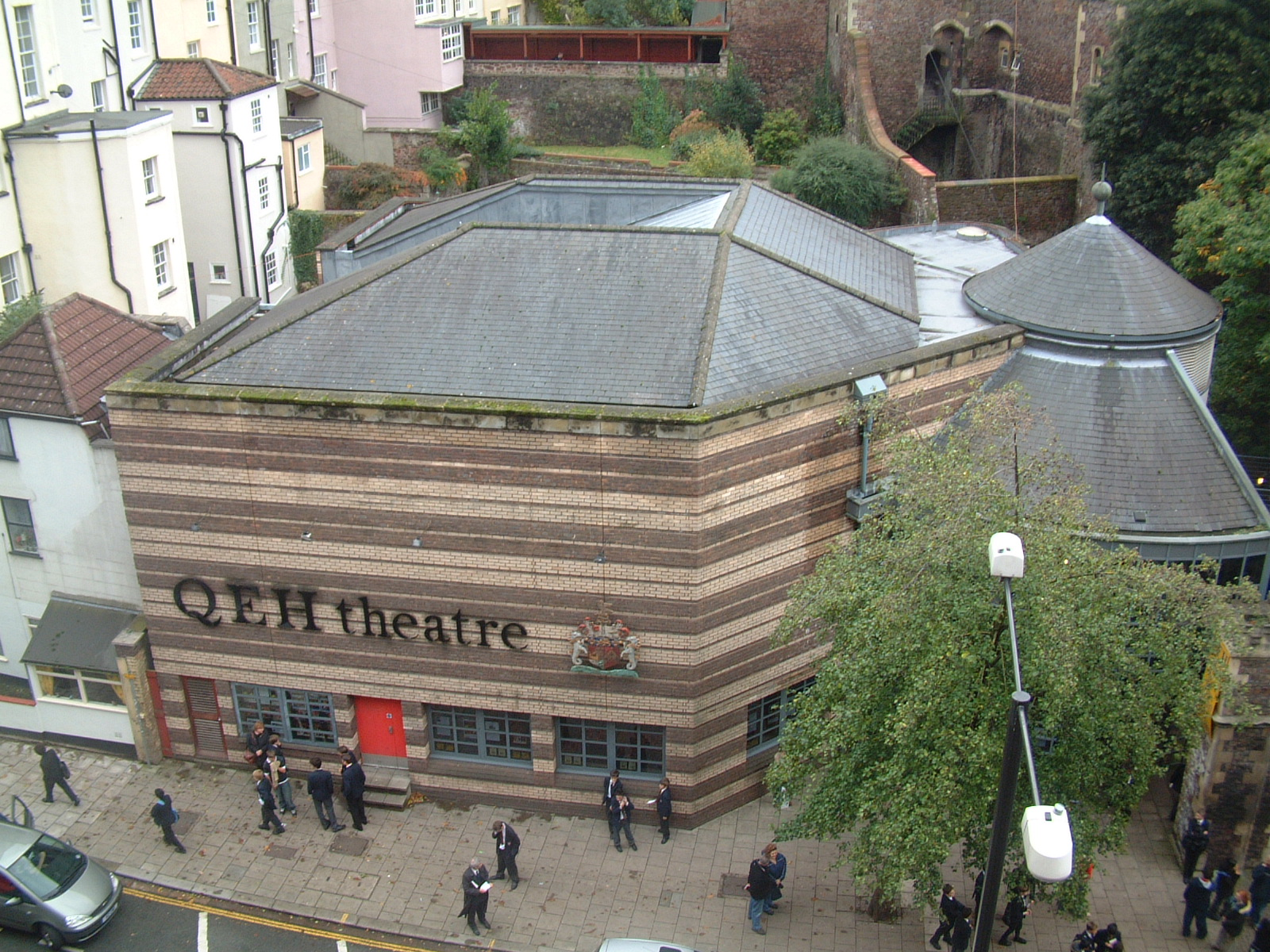 View of the QEH Theatre, seen from the NCP car park. At the top right of the picture is "The Pit", a dump which was converted into the new Sixth Form centre.